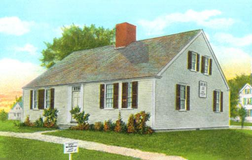 Clark House, Wolfeboro, NH; from a c. 1920 postcard. It was built in 1778.